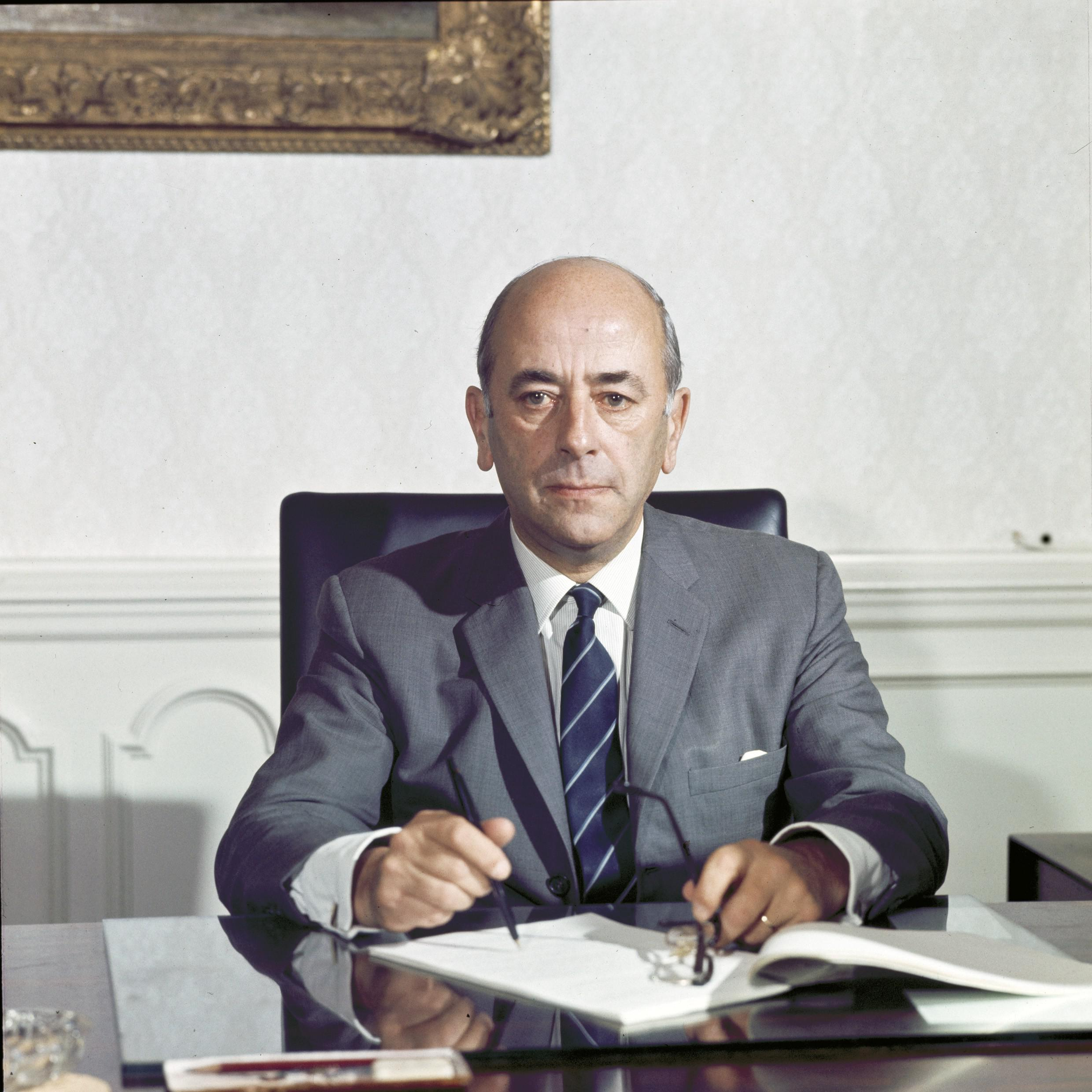 Adri van Es (1913-1994) was a Dutch vice admiral and politician.